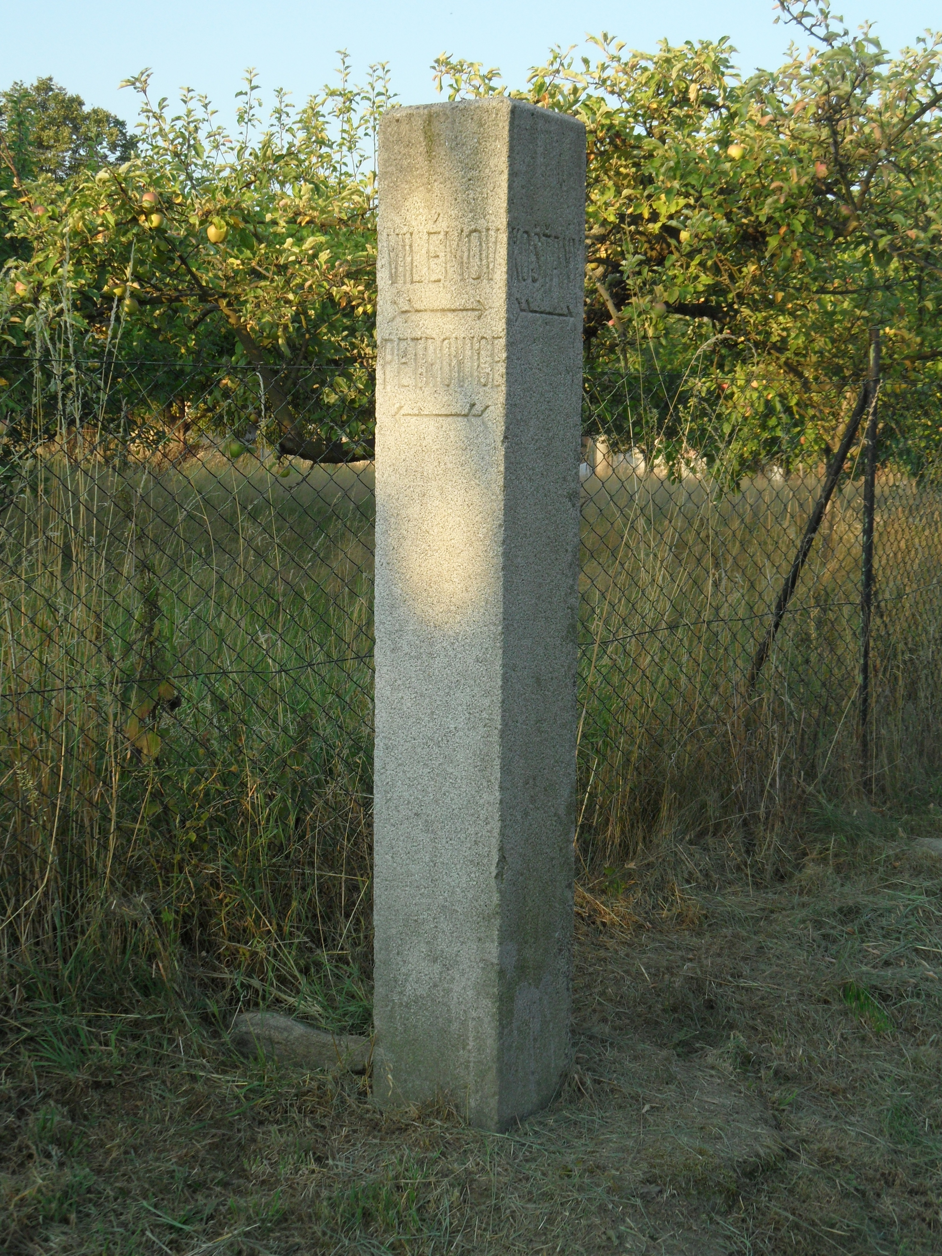 Košťany_(Vilémov) F. Old Stone Road Signpost. Havlíčkův Brod District, the Czech Republic.